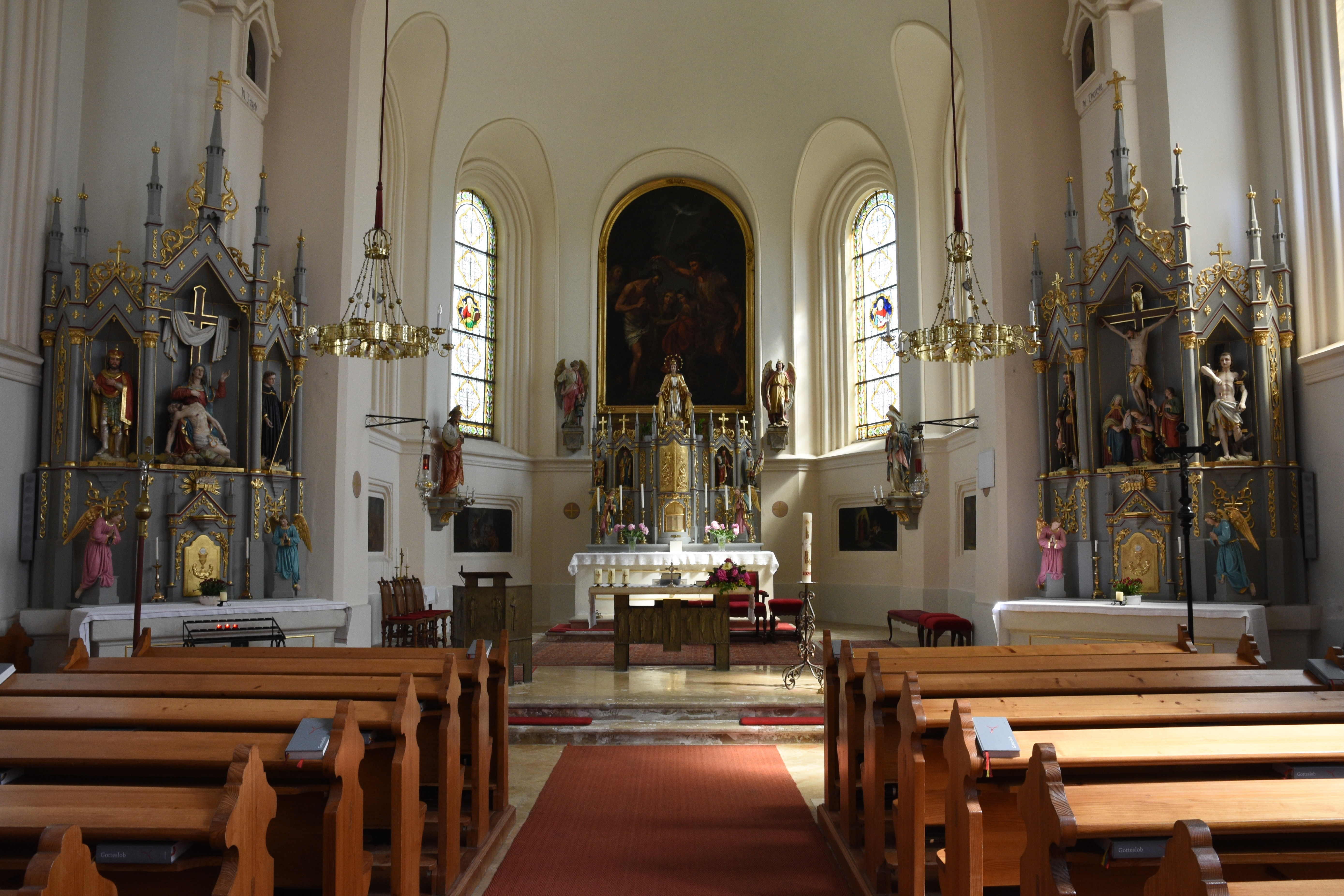 Church Kath. Pfarrkirche Sankt Johann-Köppling Interior